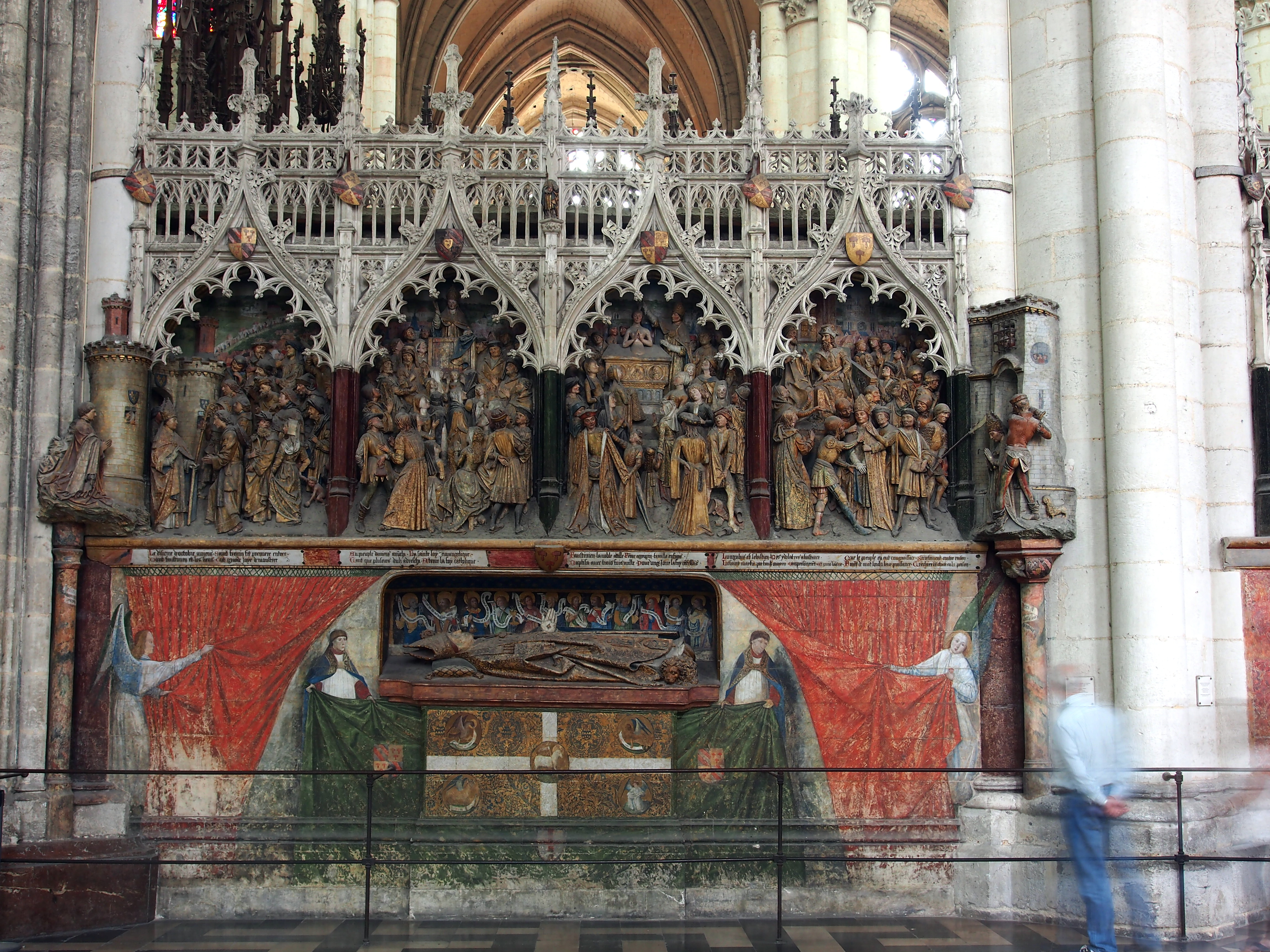 Photo taken in and around Amiens Cathedral